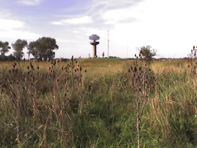 VYCEA, an Argentine Air Force radar base located in Parque San Martín, Merlo.